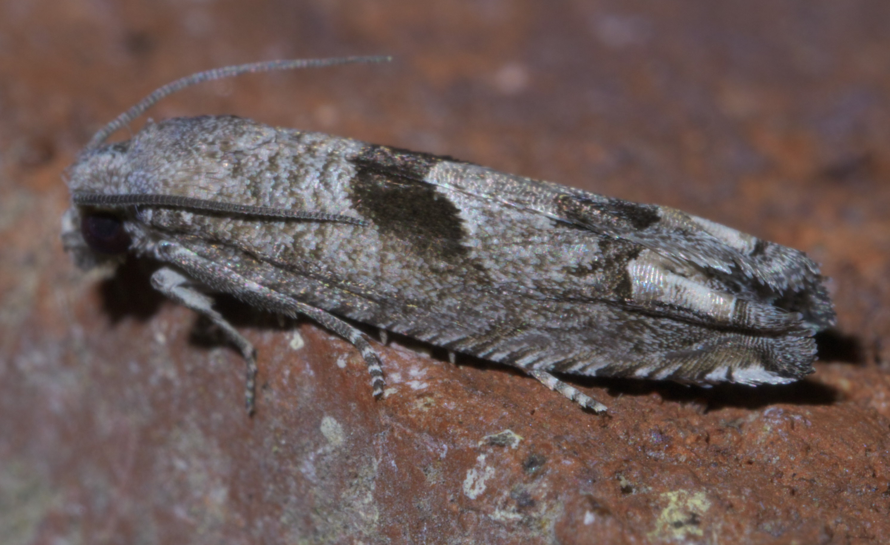 Suleima helianthana, sunflower bud moth, Size: 9.6 mm, ID Confidence: 94